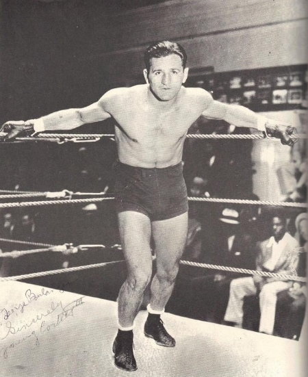 Italian American Boxer Young Corbett III, as he appeared in 1931, training at the Taussig-Ryan gym, for his fight with Paulie Walker